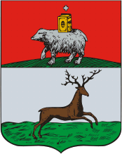 Cherdyn (Perm krai), coat of arms (1783)